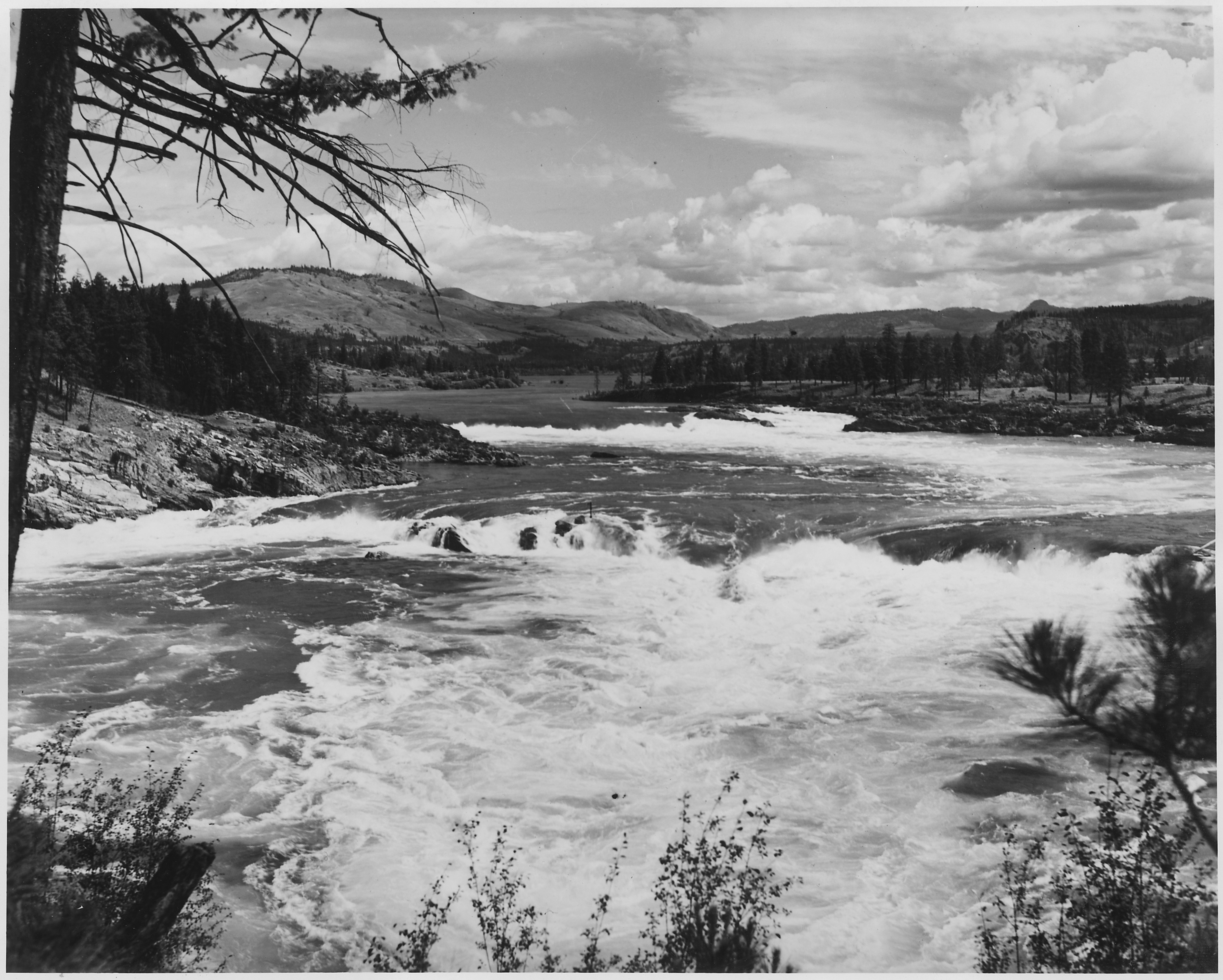 Scope and content: Photographic reports compiled by Harold Weaver illustrate forest management on Indian Reservation forests of Washington and Oregon, mainly on Colville where Weaver was Forest supervisor before becoming Regional Forester in 1960. Ther are a few photos of California and Montana and reports of scientific field trips.